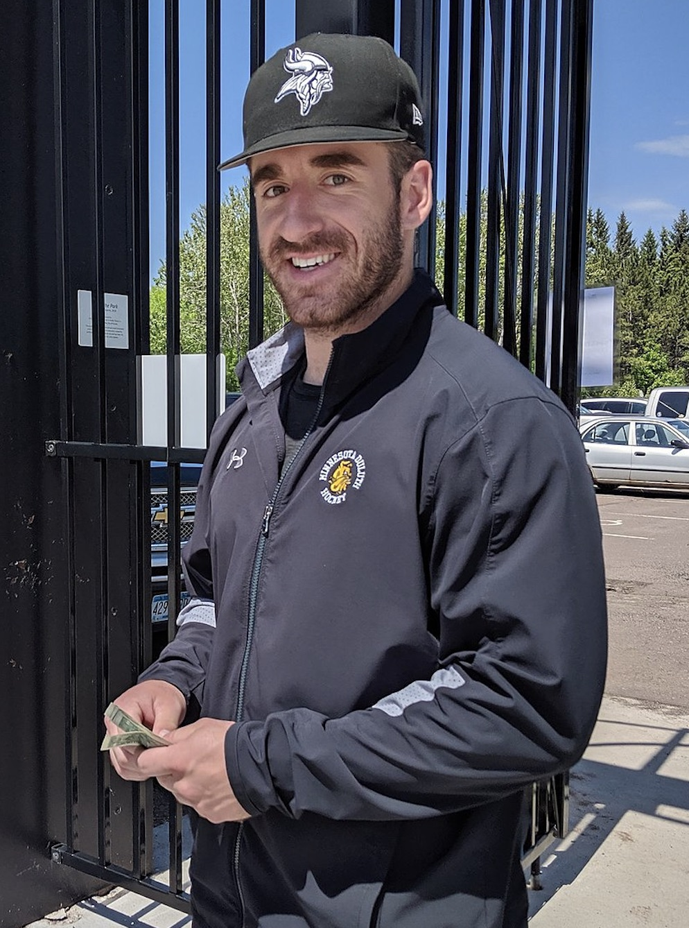 This is a picture of former University of Minnesota Duluth goaltender Hunter Shepard.